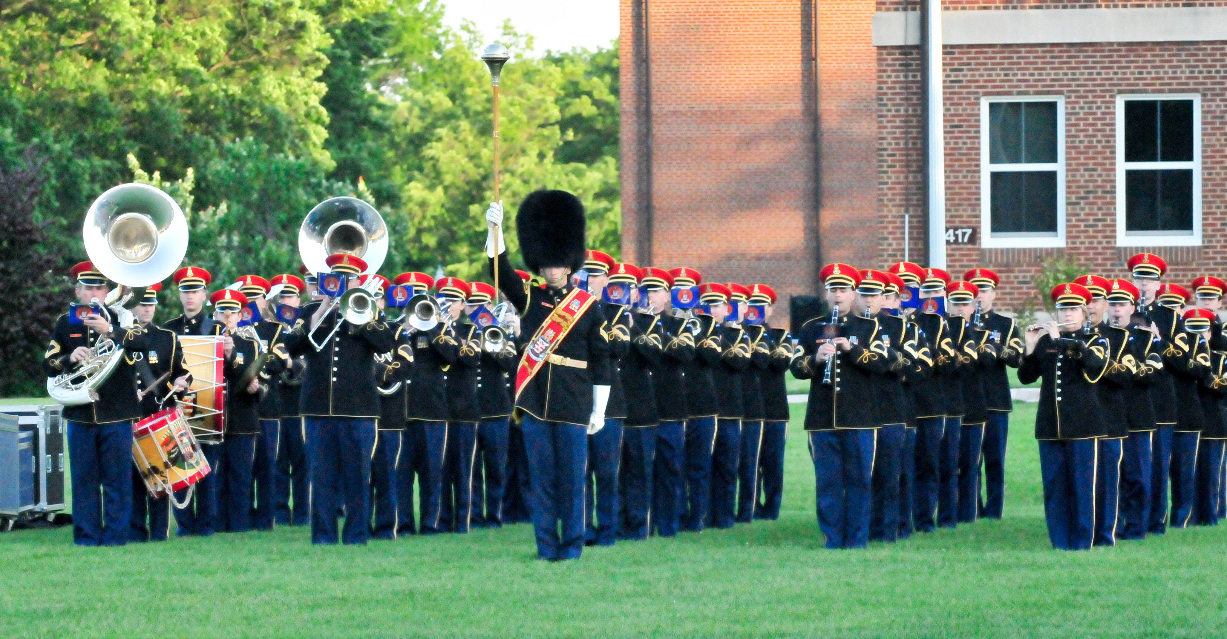 The Under Secretary of the Army, Patrick J. Murphy, hosted tis week's Twilight Tattoo. The United States Army Band, conducted by Lt. Phillip Tappin, and featured members of the chorus provided musical elements and performed throughout the live-action show.